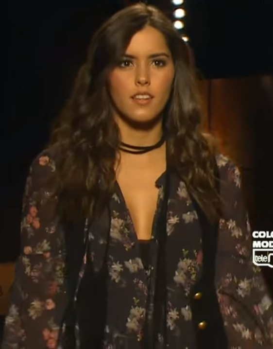 Colombian model and TV host Paulina Vega, Miss Universe 2014, models clothes from Falabella in the Plaza Mayor, Medellín convention center.